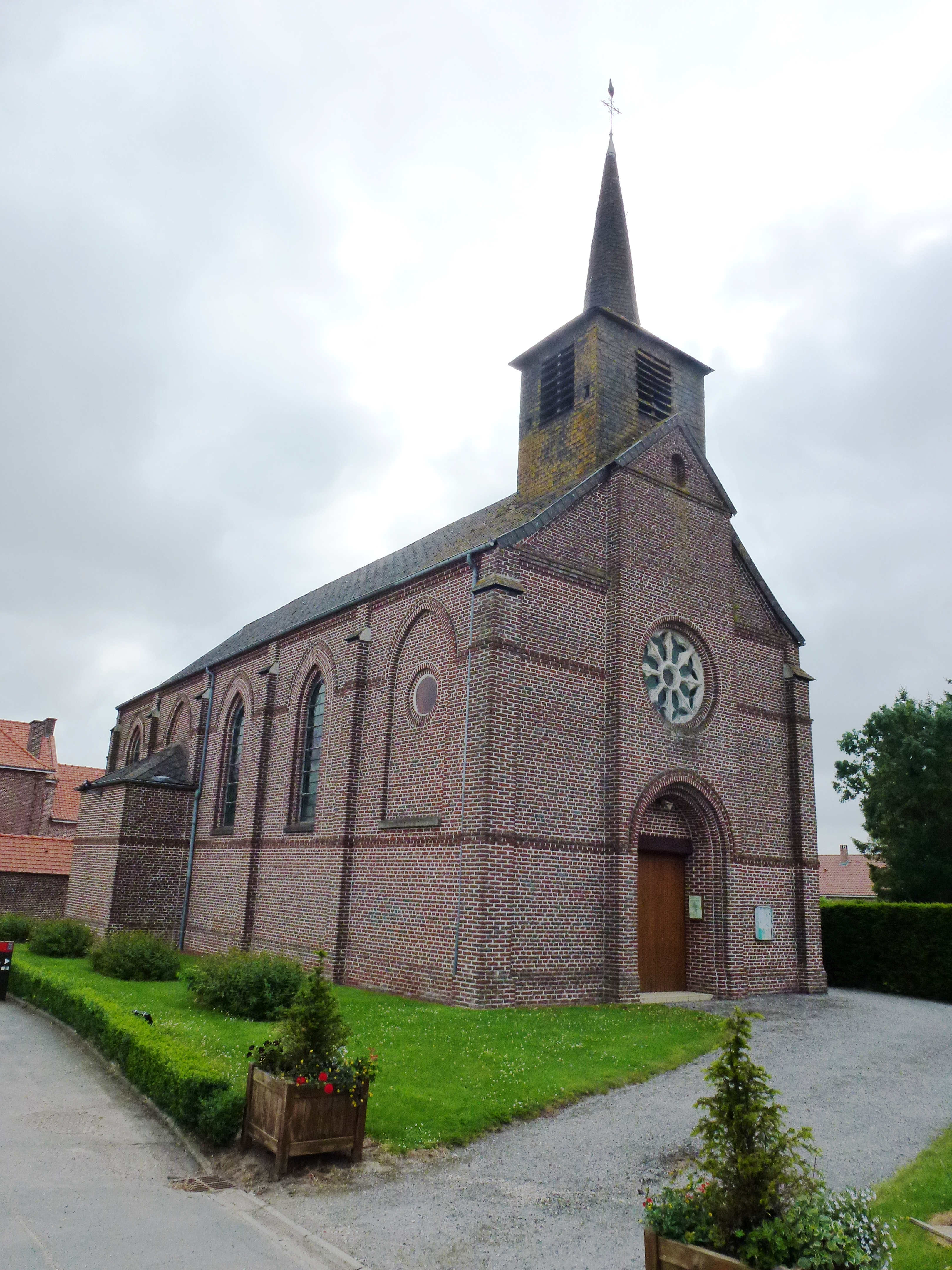 Westrehem (Pas-de-Calais, Fr) église